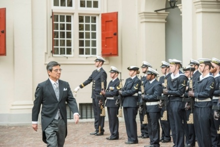 Hiroshi Inomata, Ambassador to Netherlands, went to Noordeinde Palace to present his diplomatic credentials to King Willem-Alexander on March 23, 2016.